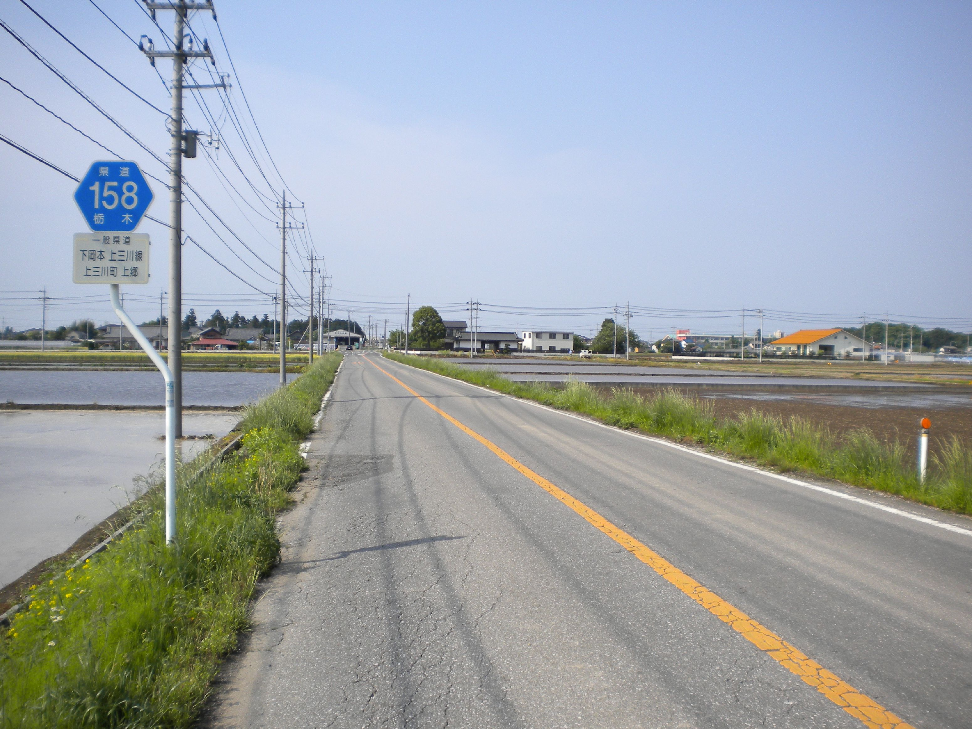 Tochigi prefectural road No.158 on Kaminokawa town